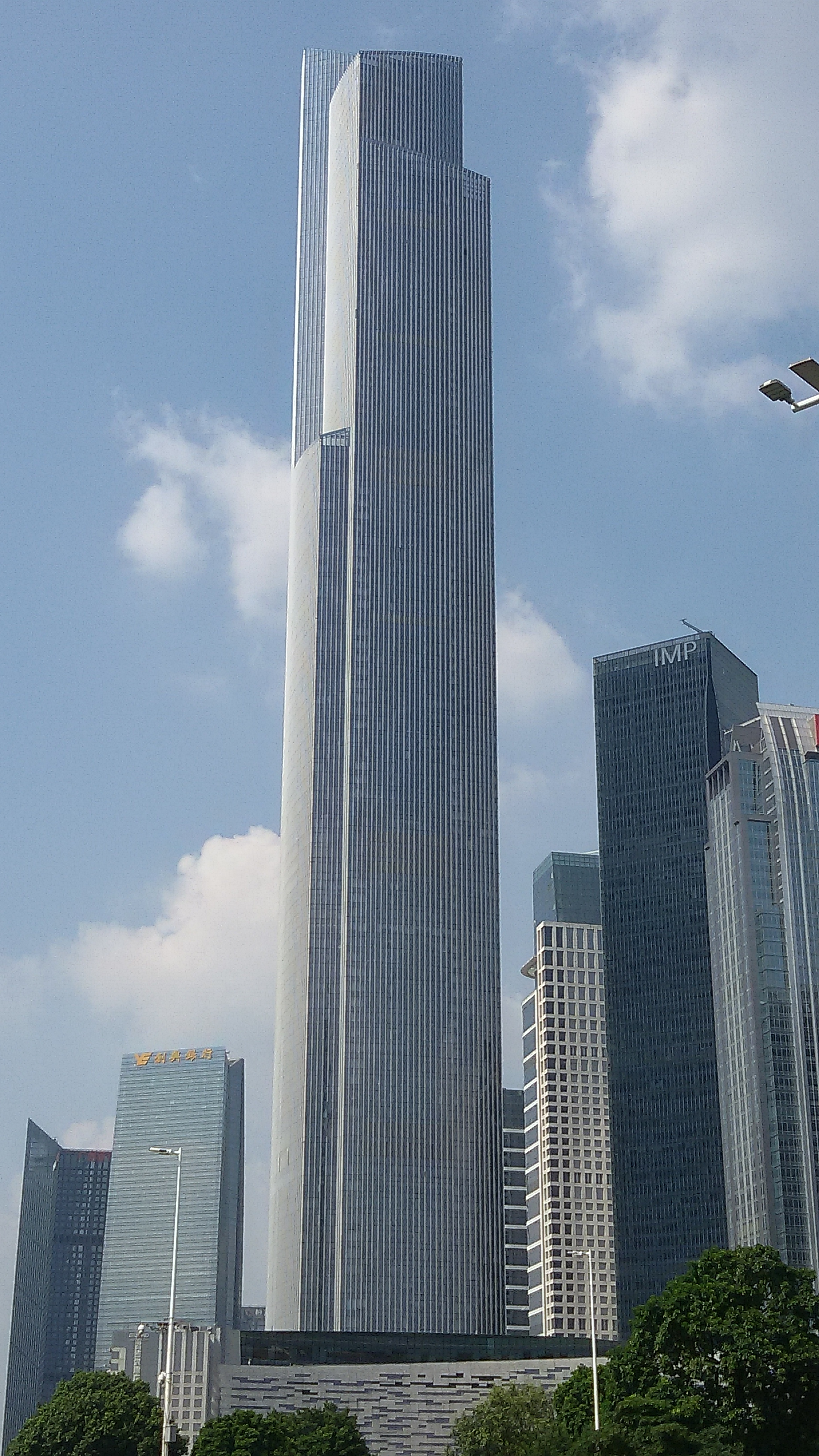 Guangzhou CTF Finance Center